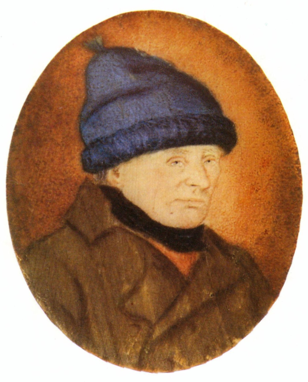 Hans Momsen, Fahretoft, Duchy of Schleswig, 1735–1811 Nordfriisk: Hans Momsen, Foortuft, 1735–1811